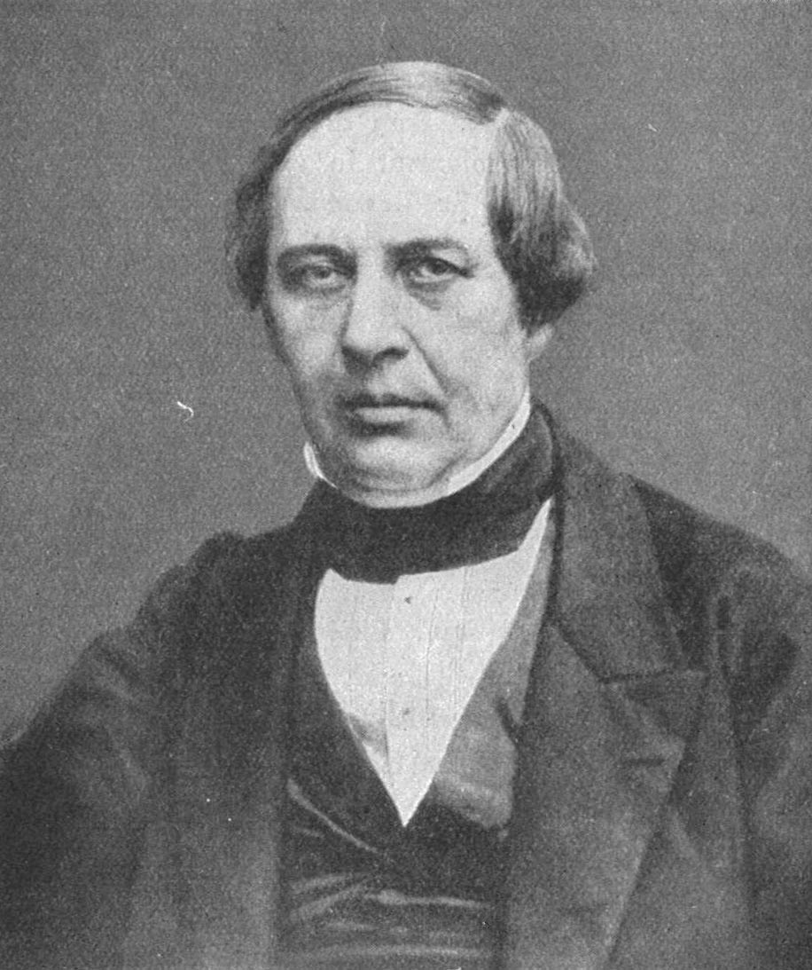 Haqvin Selander (1804-1870), Swedish professor of astronomy and member of parliament.